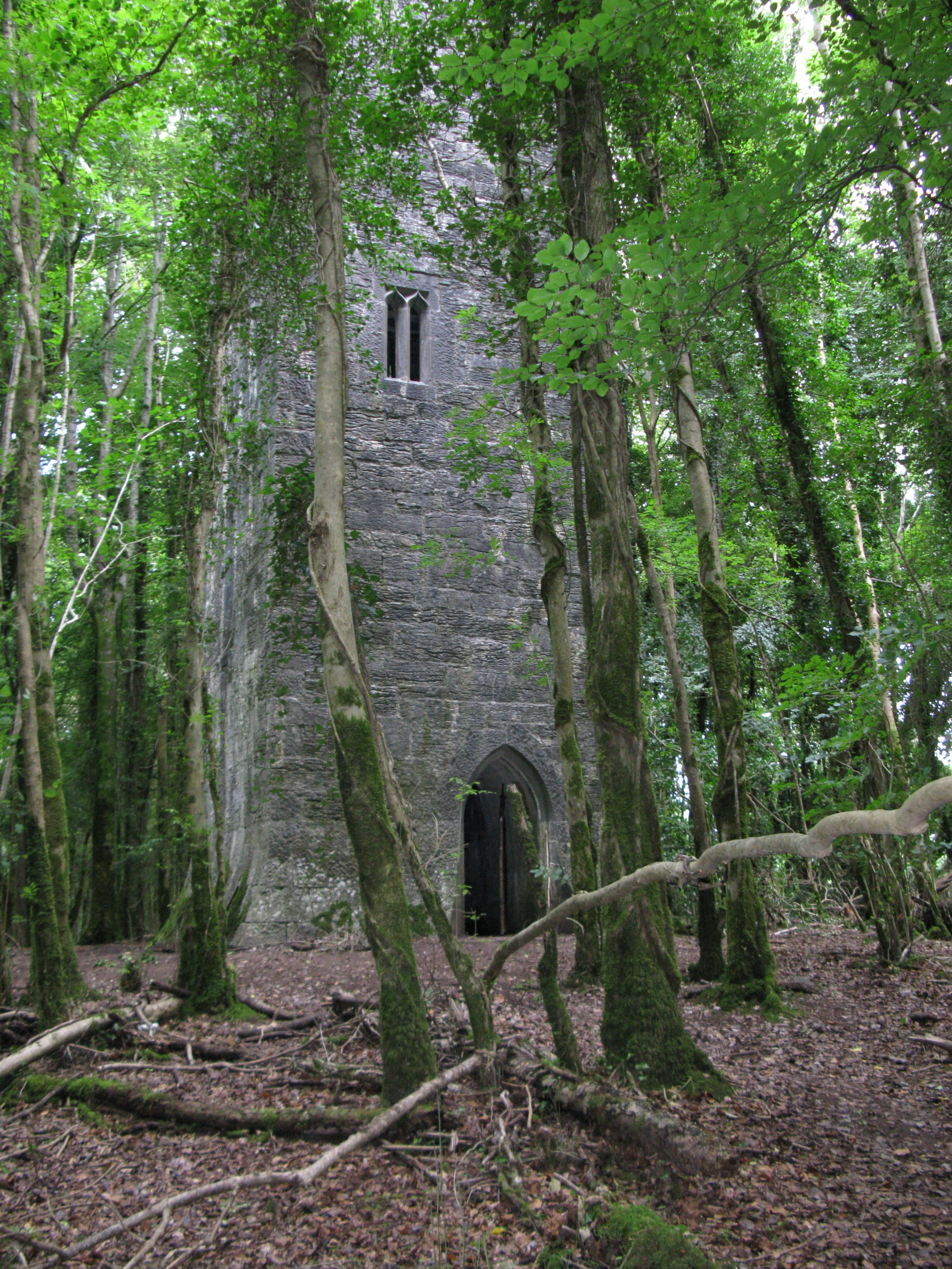 Guinness Tower on the grounds of Ashford Castle, Cong, County Mayo, Ireland